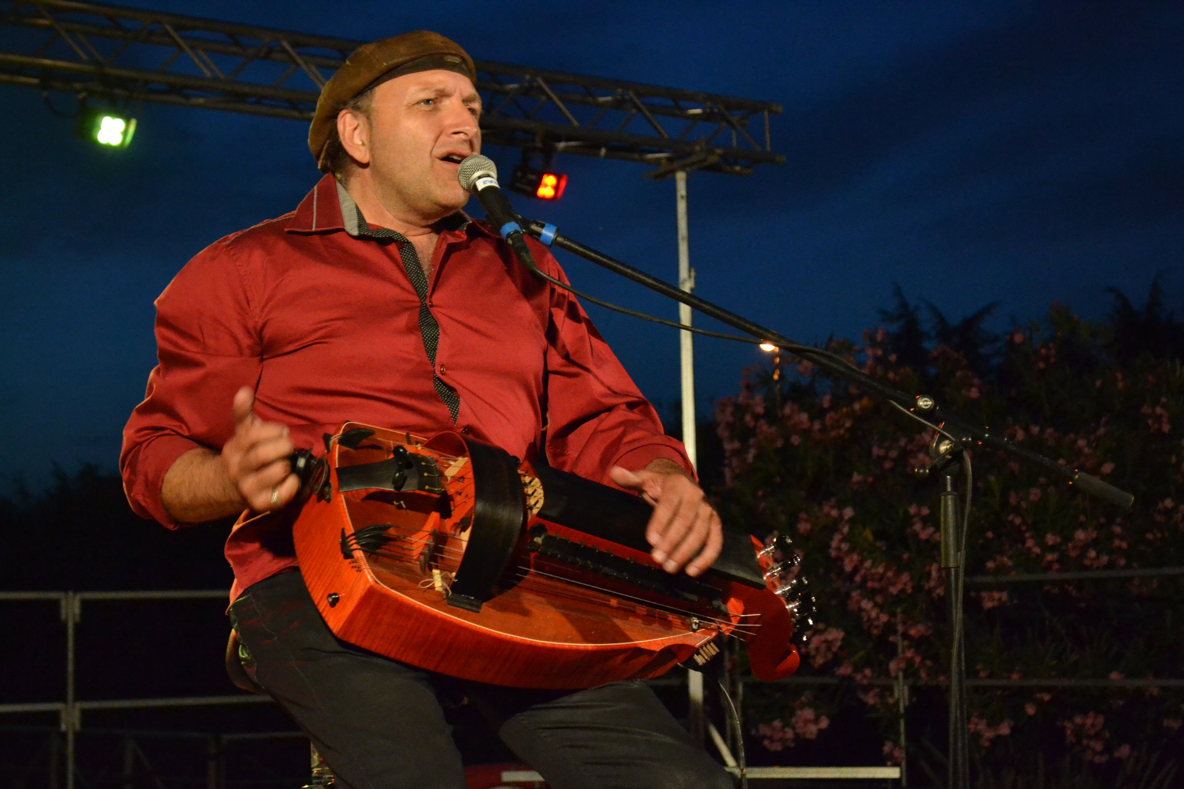 Castanha e Vinovèl in Portiragnes during CanalissimÔ festival 2015.